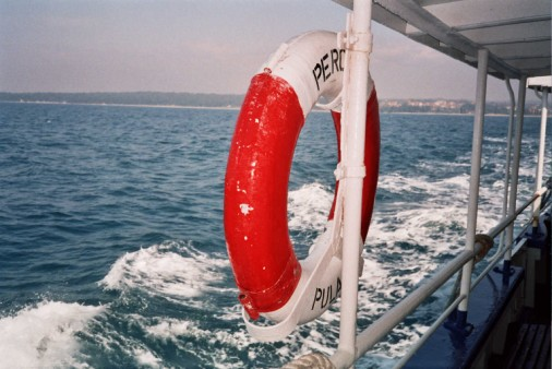 life buoy, by Shirley